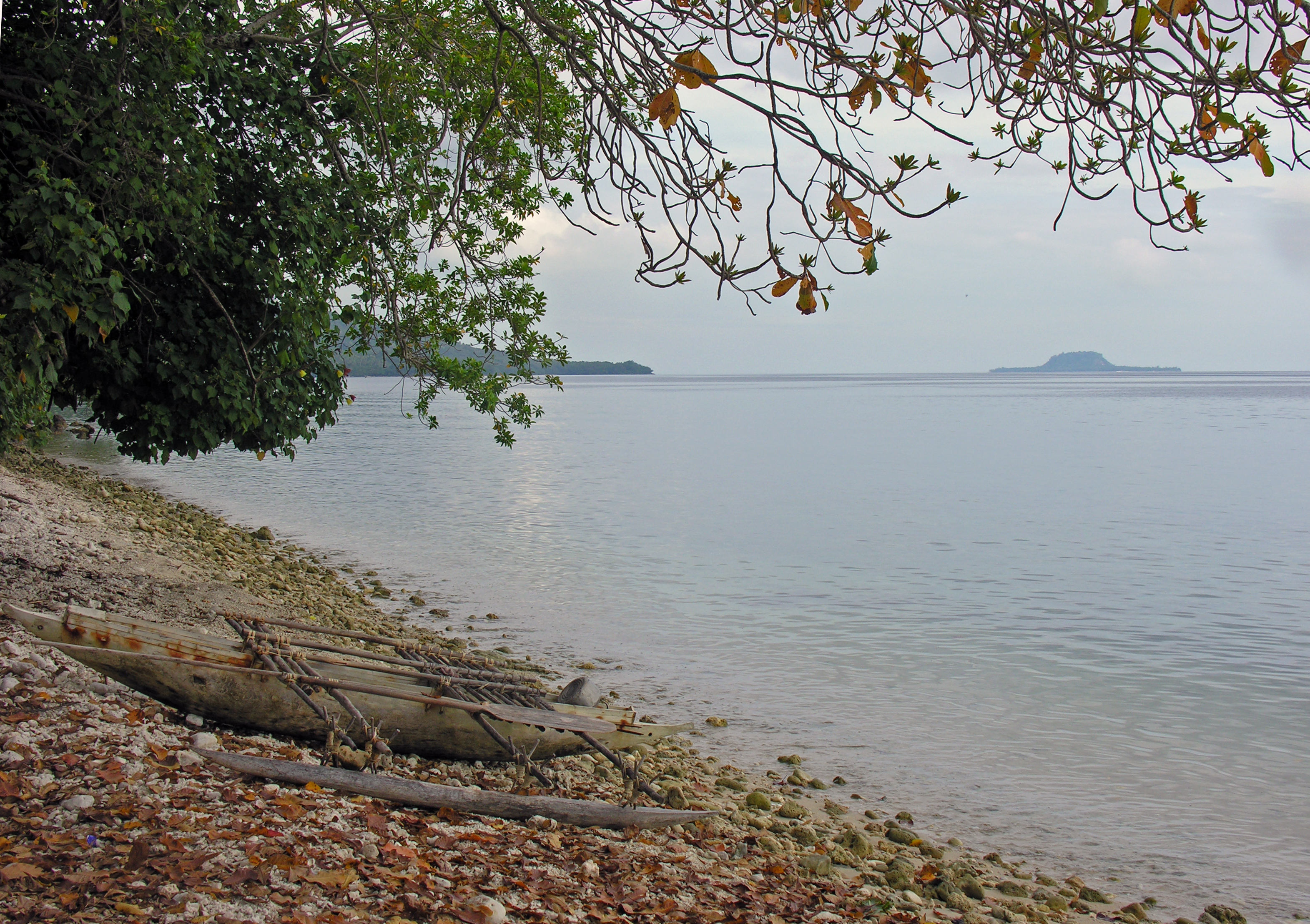 Eretoka (Hat Island) from Lelepa Landing, Efate, Vanuatu, 5 June 2006